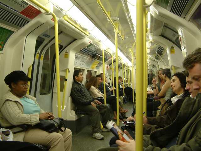 Northern Line carriage - internal - night - London, England